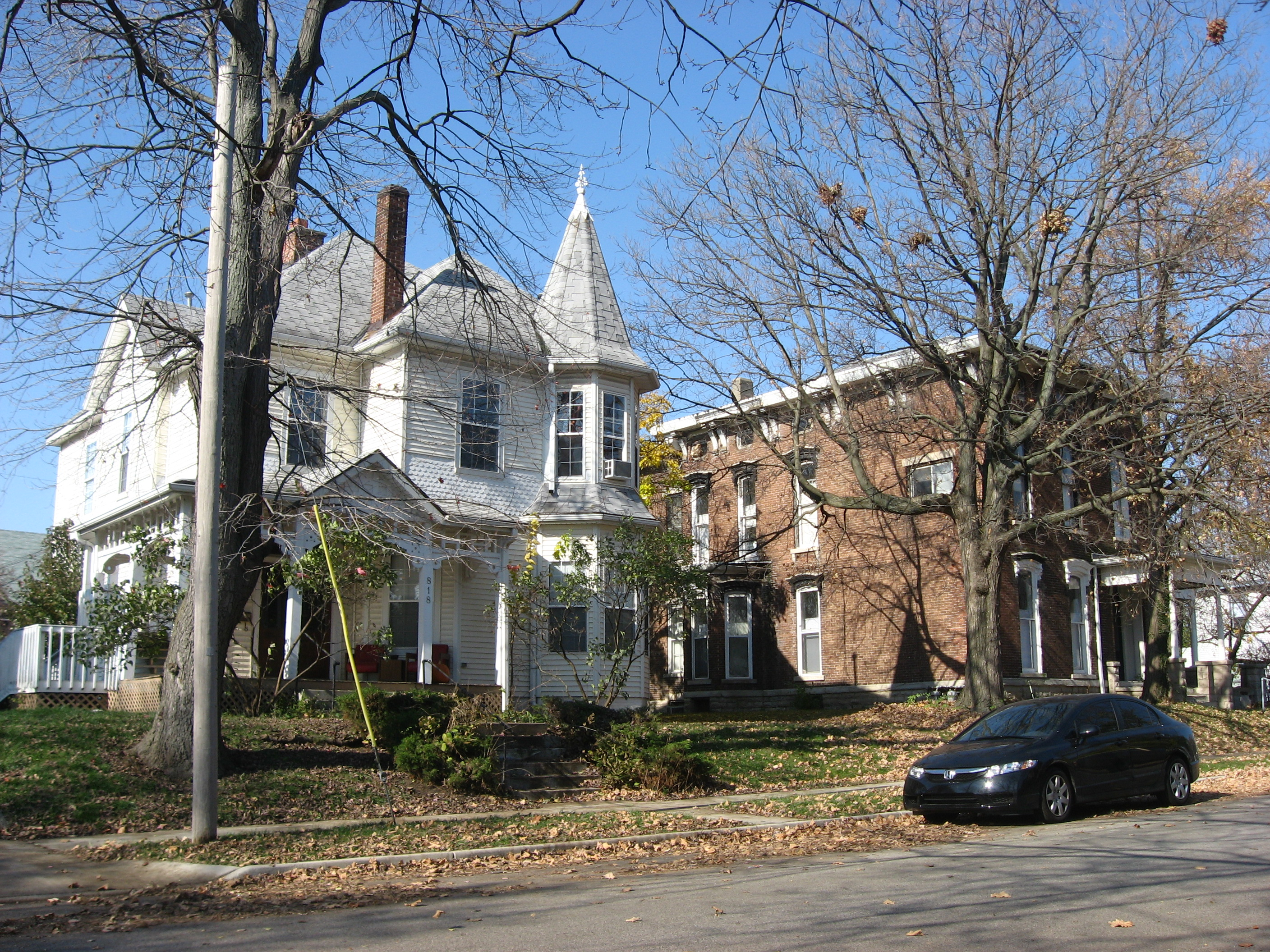 Houses on the western side of the 800 block of Tenth Street in Lafayette, Indiana, United States. This area is part of the Park Mary Historic District, a historic district that is listed on the National Register of Historic Places.